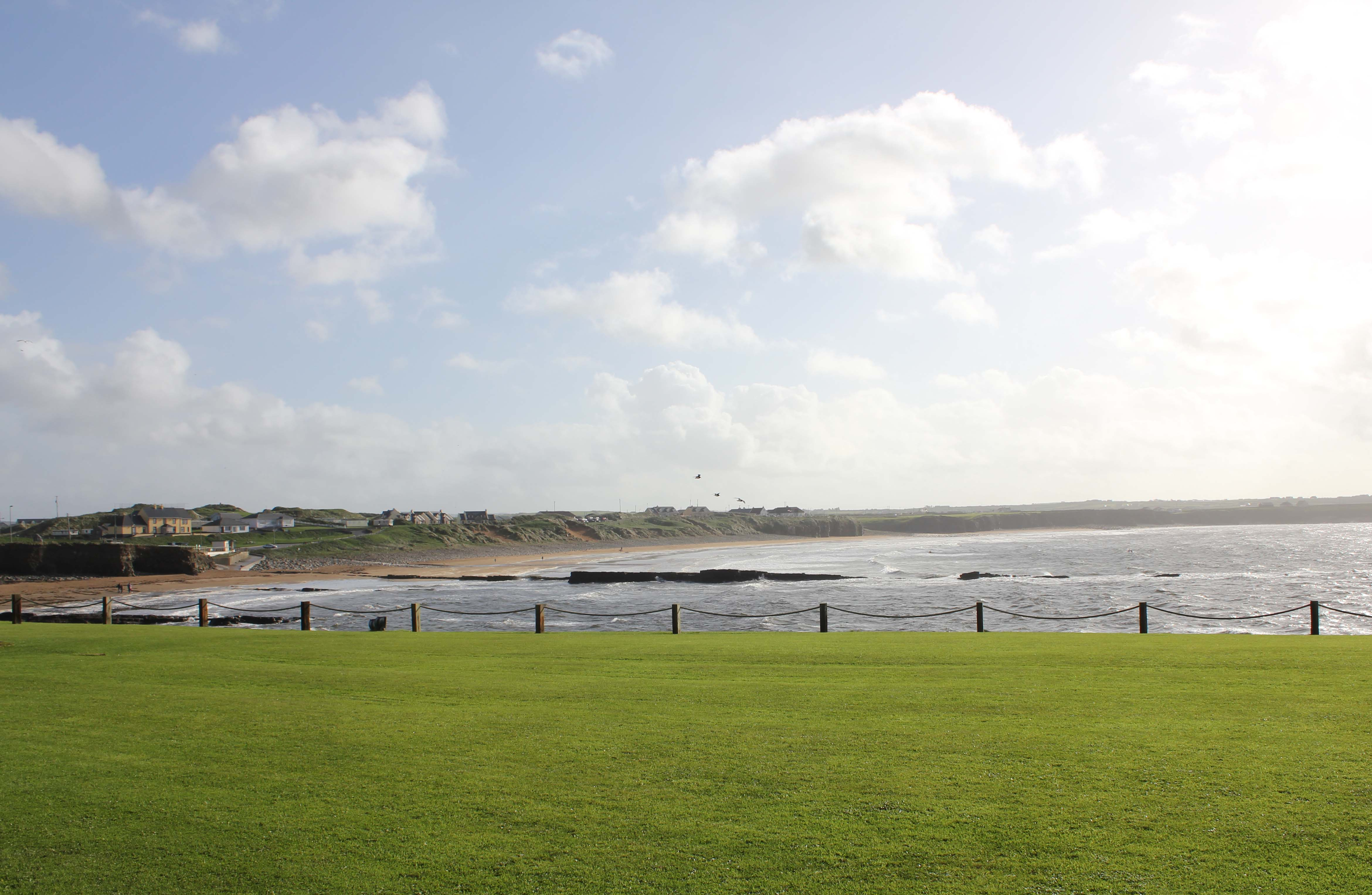 The Beach at Spanish Point, Miltown Malbay, County Clare, Ireland